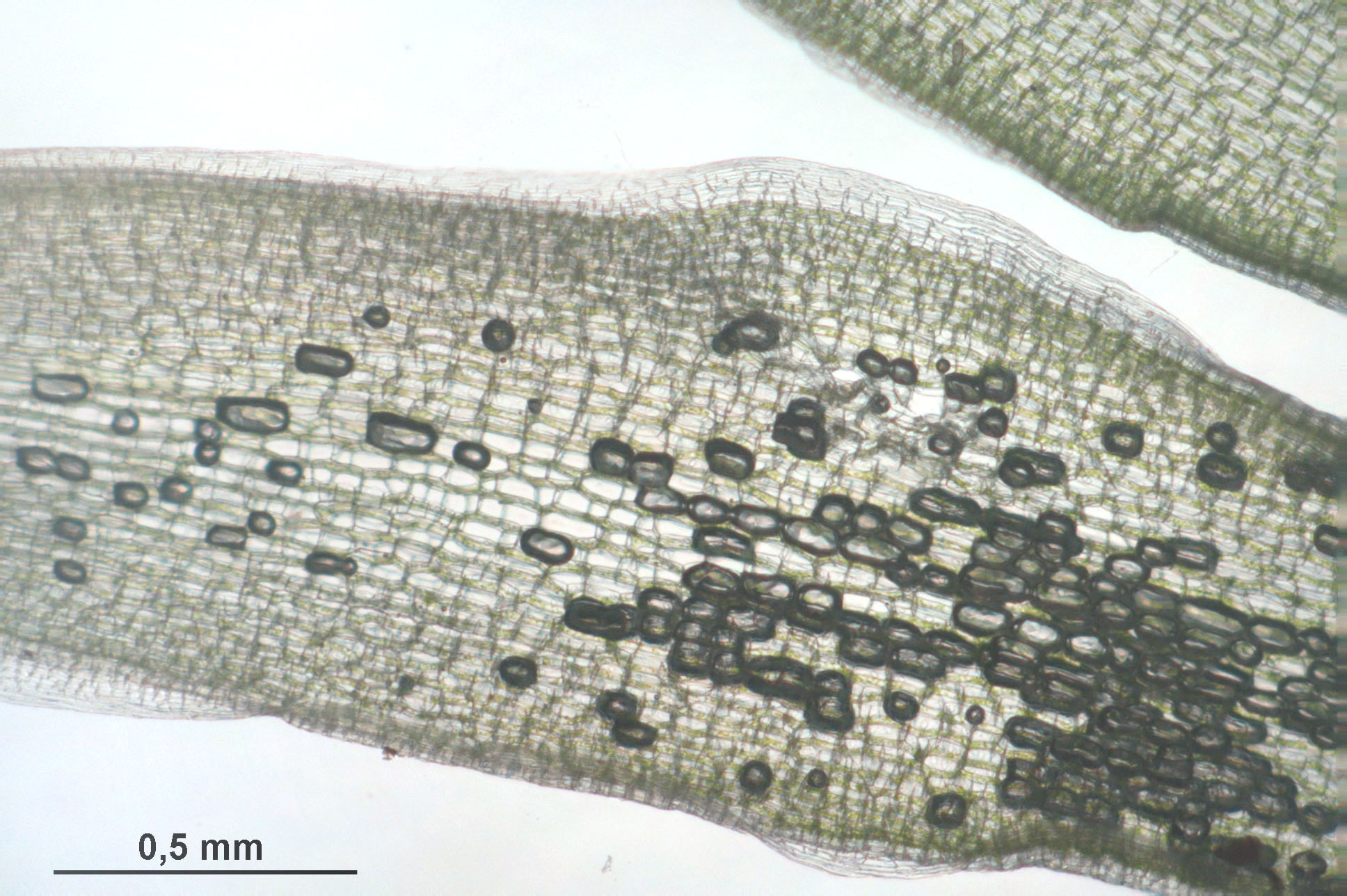 Leucobryum glaucum